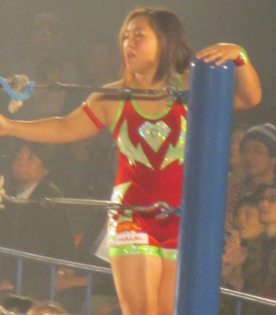 Japanese professional wrestler,Chihiro Hashimoto. Nov 13 2016, OZ Academy, Yokohama Cultural Gymnasium.